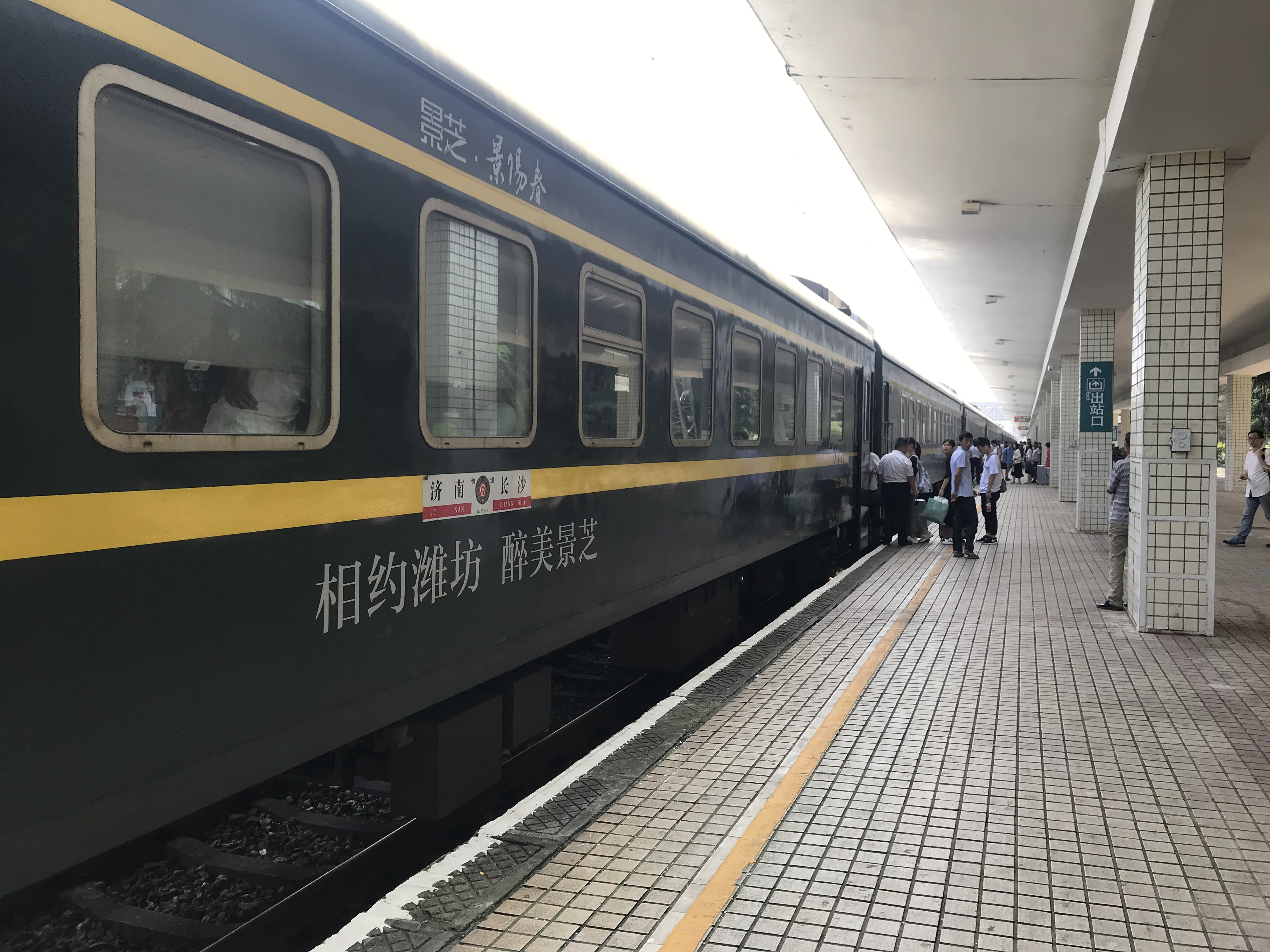 201906 Coaches of K1073 at Yueyang Station Platform 1